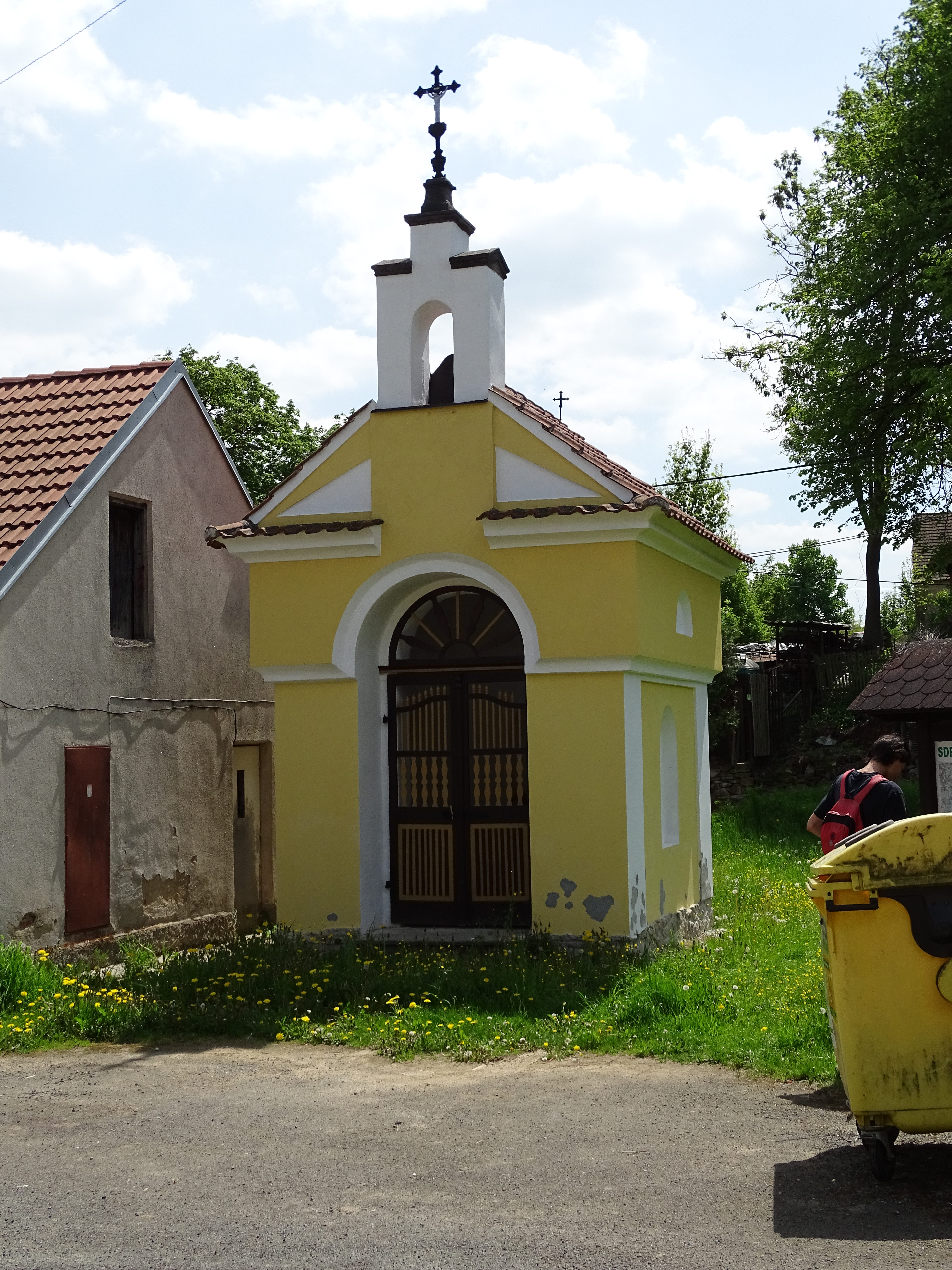 Křečovice-Strážovice, Benešov District, Central Bohemian Region, Czech Republic. A chapel.